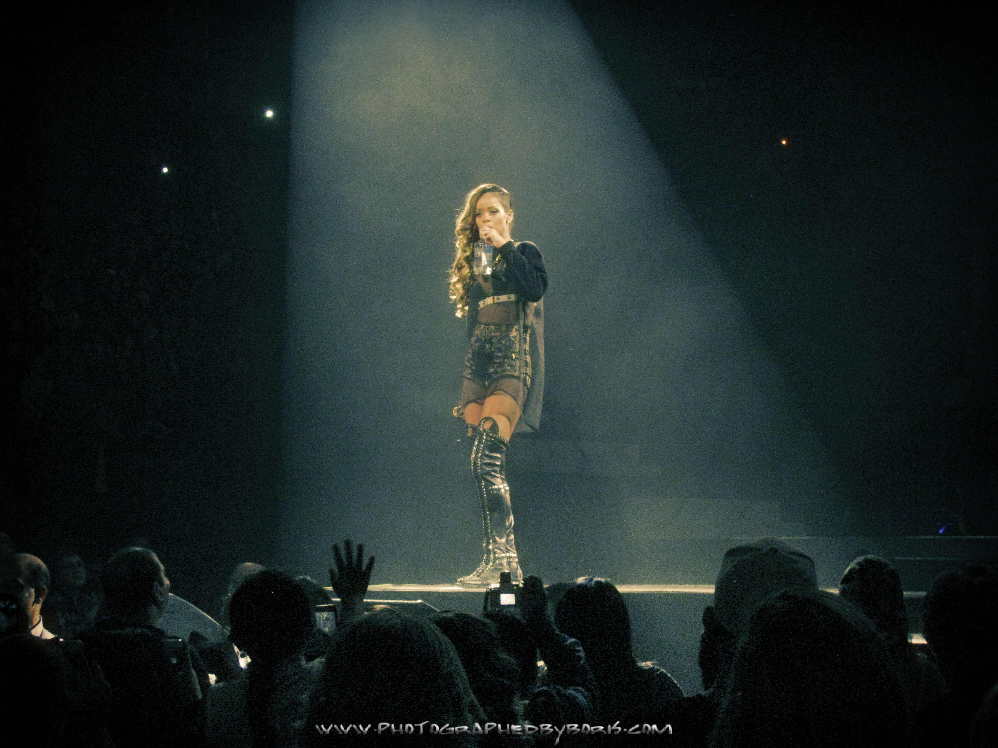 Rihanna at the Air Canada Centre